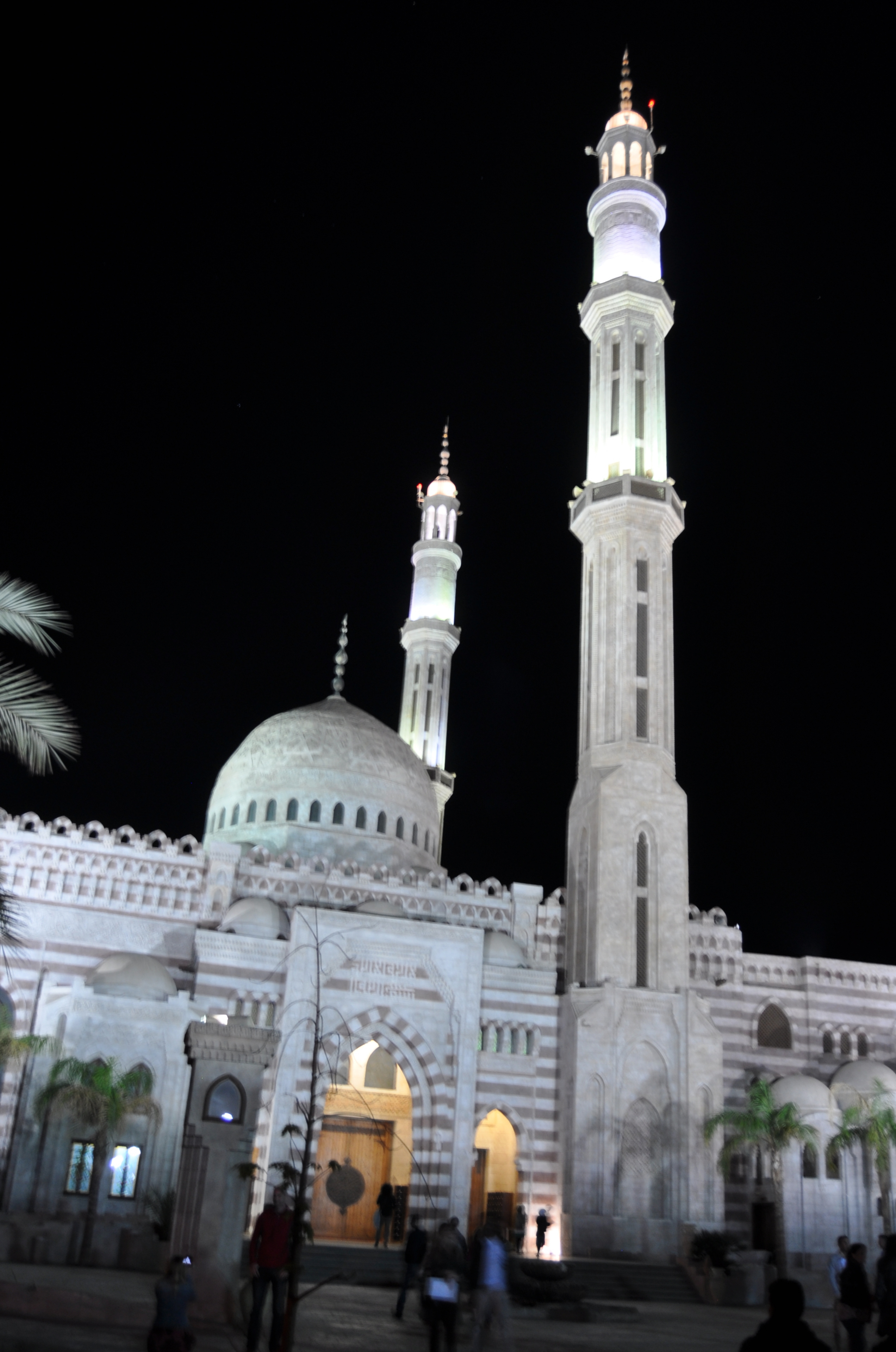 Al-Mustafa Mosque in Sharm El Sheikh